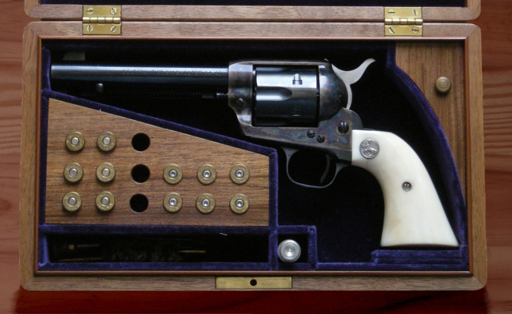 SAA 44-40